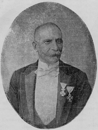 Gerasimos Aspiotis: Greek industrialist